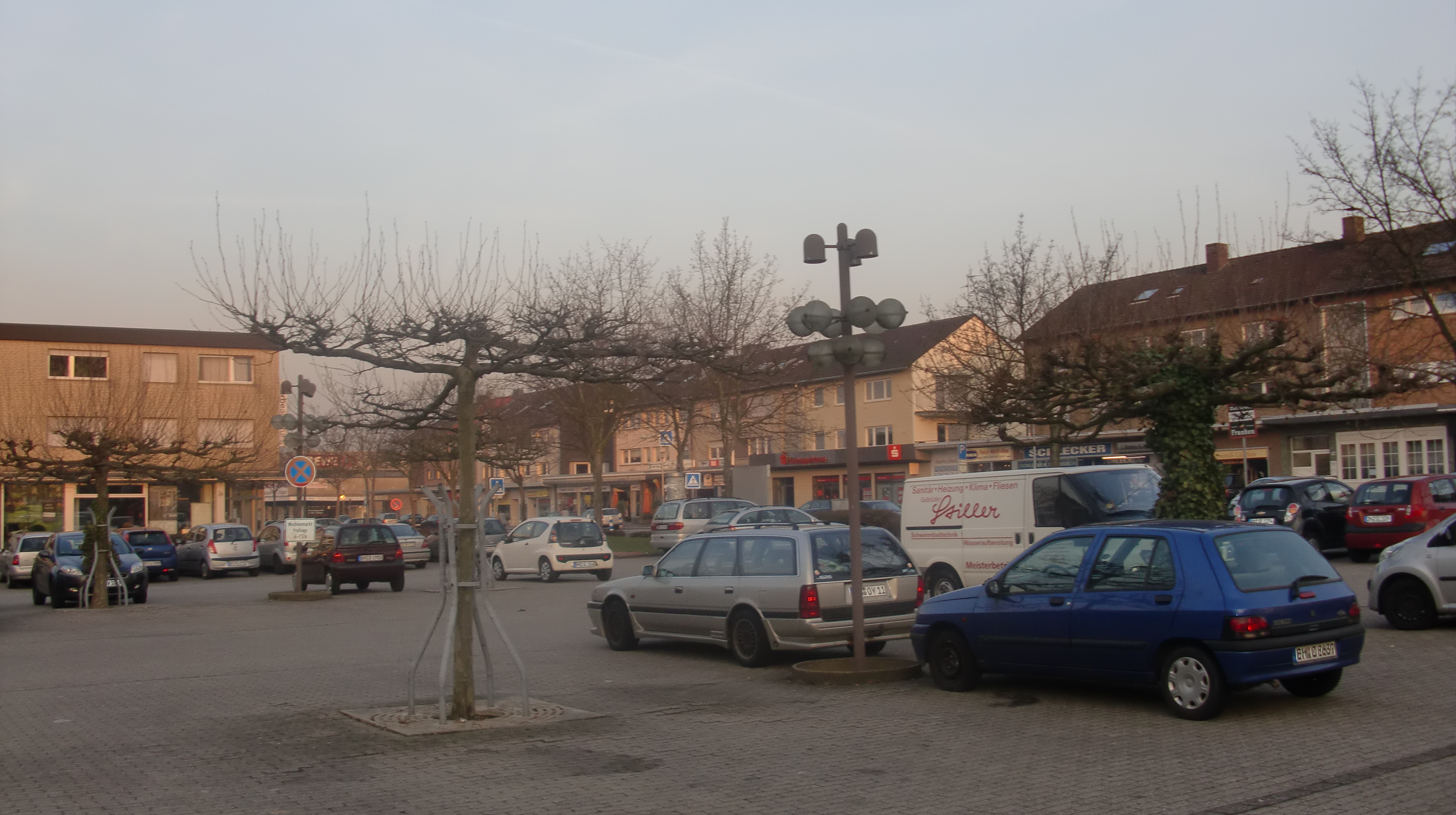 The townhall place in New Morken-Harff (part of Kaster).